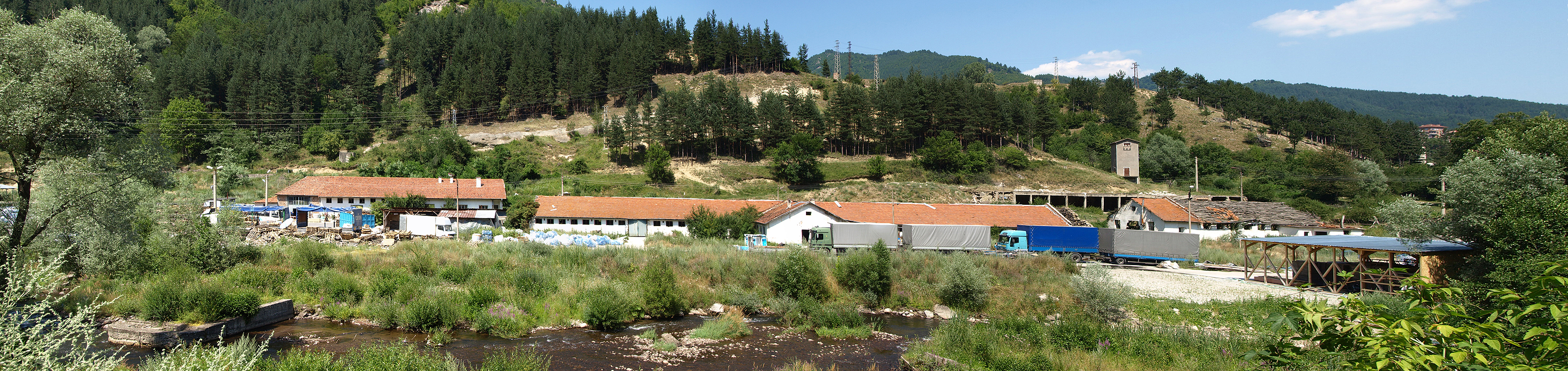 Devin Water Plants on Devin River Bank, Bulgaria